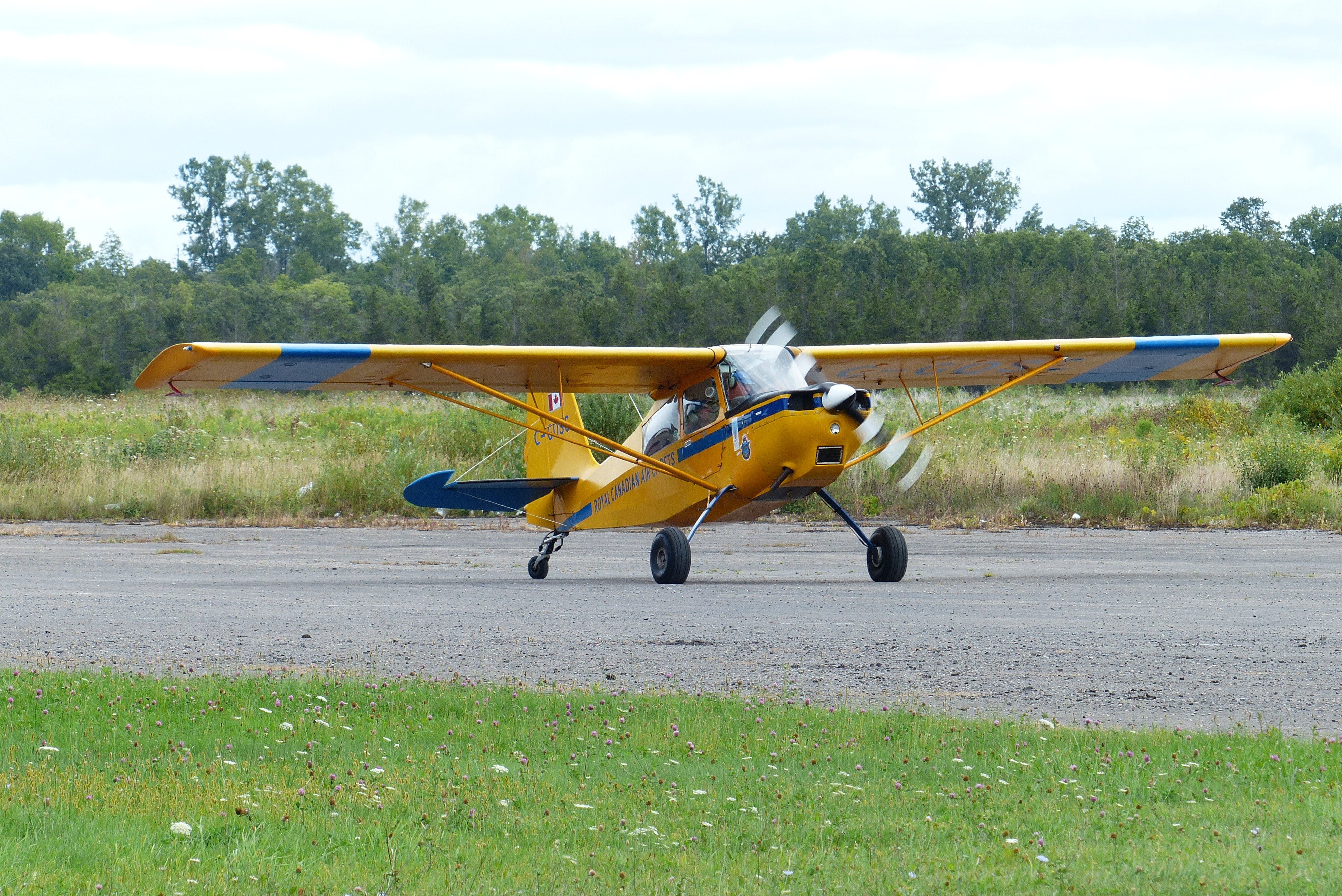 Royal Canadian Air Cadet Bellanca Scout glider tug taxiing for takeoff at Picton Airport in August 2015. Photo taken with permission of Loch-Sloy Holdings Ltd.